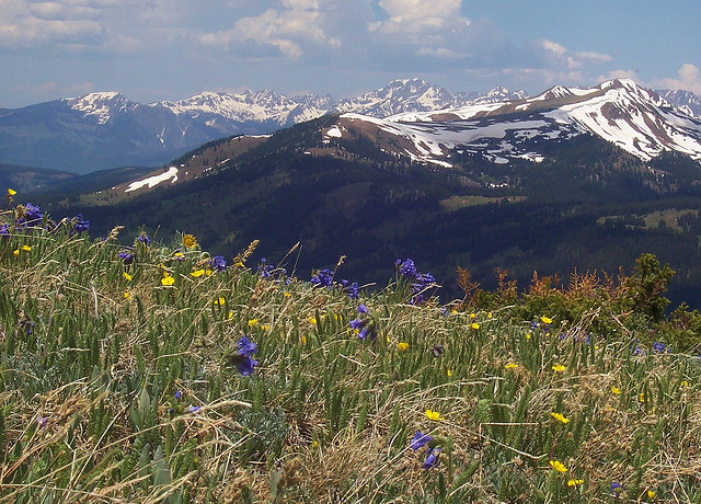 Spaulding Ridge wildflowers, Copper Mtn. Sky pilot, alpine buttercup, and old-man-of-the-mountain in full bloom at 12,100' on Copper Mountain.